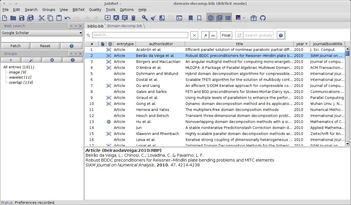 Screenshot of the JabRef 3.6 main window